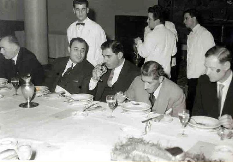 Prof. Haddara at a dinner held by the UNESCO's Director-General Rene Maheu (on his right) in Beirut. 01-02-1960 — in Beirut, Beyrouth.